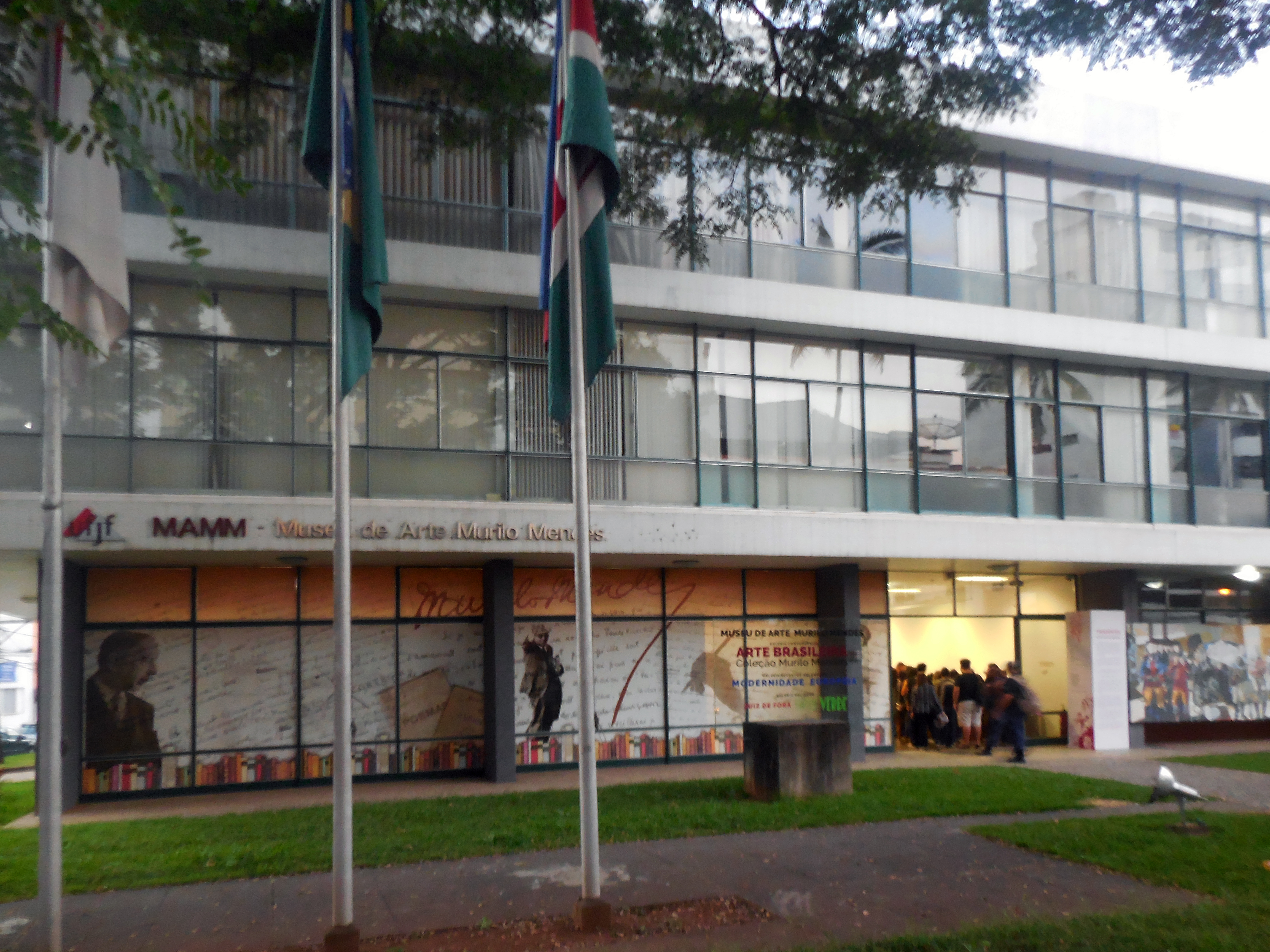 Facade of the Museum of Art Murilo Mendes, in Juiz de Fora, Minas Gerais, Brazil.